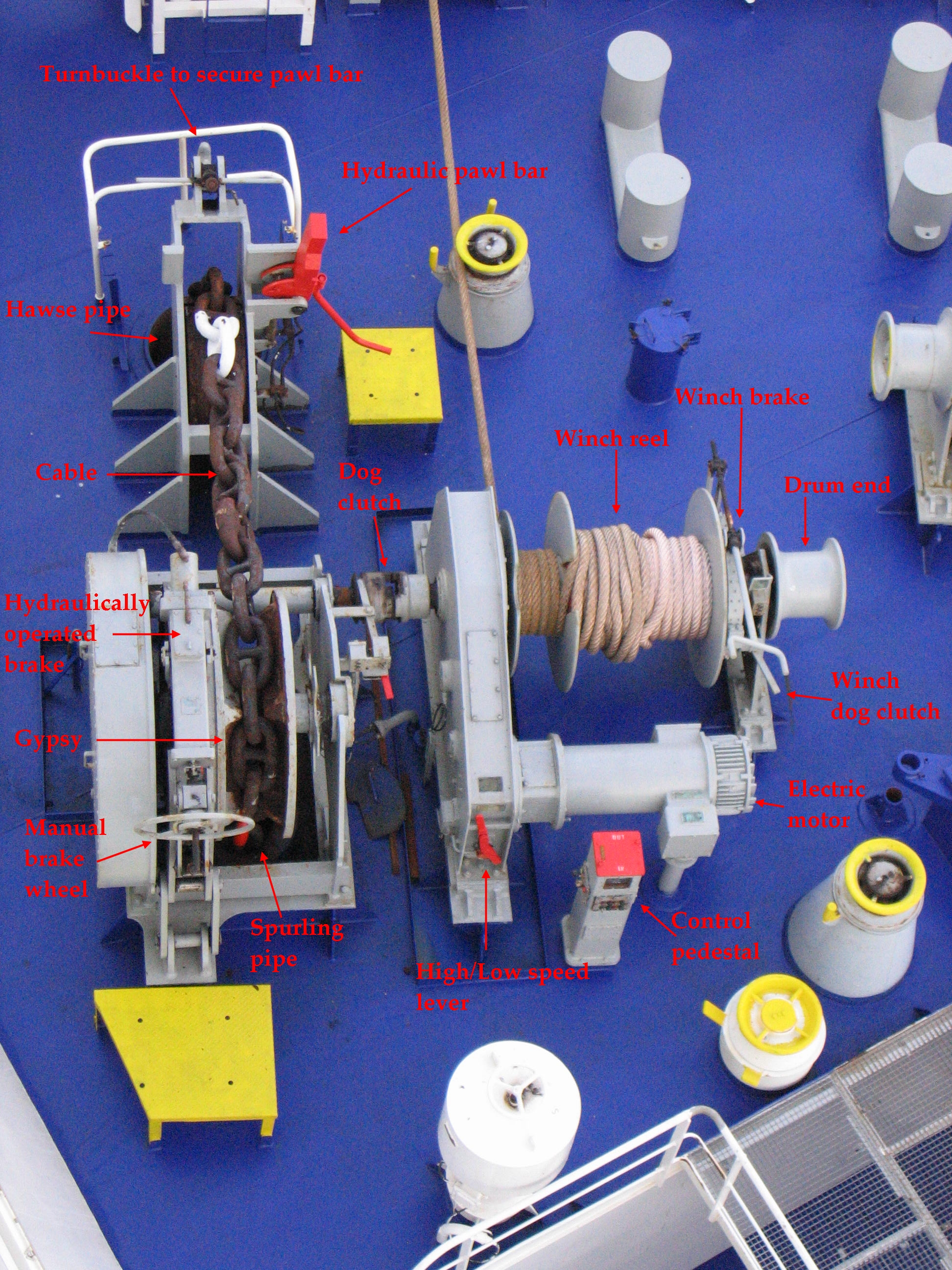 The port windlass of the Stena Britannica Information about Stena Britannica may be found at IMO 9235517. A ship can change her name and flag state through time, but the IMO number remains the same through the hull's entire lifetime. Therefore, it's useful to identify a ship through her IMO number.